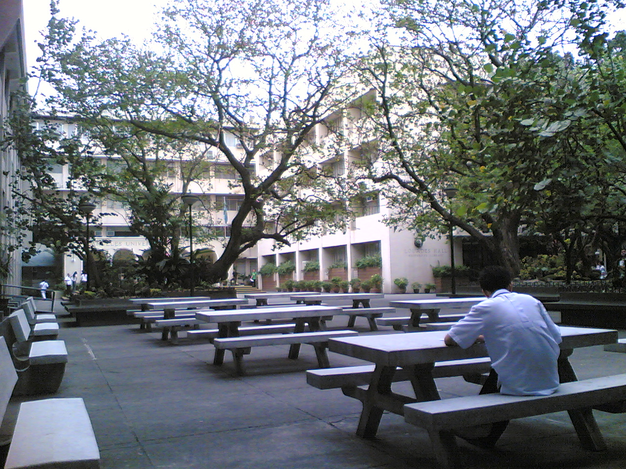 Photo of AUF Activity Center or also known as Quad A taken through a cameraphone.